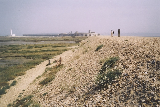 The Shingle Spit at Hurst Beach. This high shingle bank runs for some 2 or 3 kilometres from the mainland out to Hurst Castle. There is some salt marsh and a shallow harbour behind the spit which has been built up by the tidal race up The Solent.